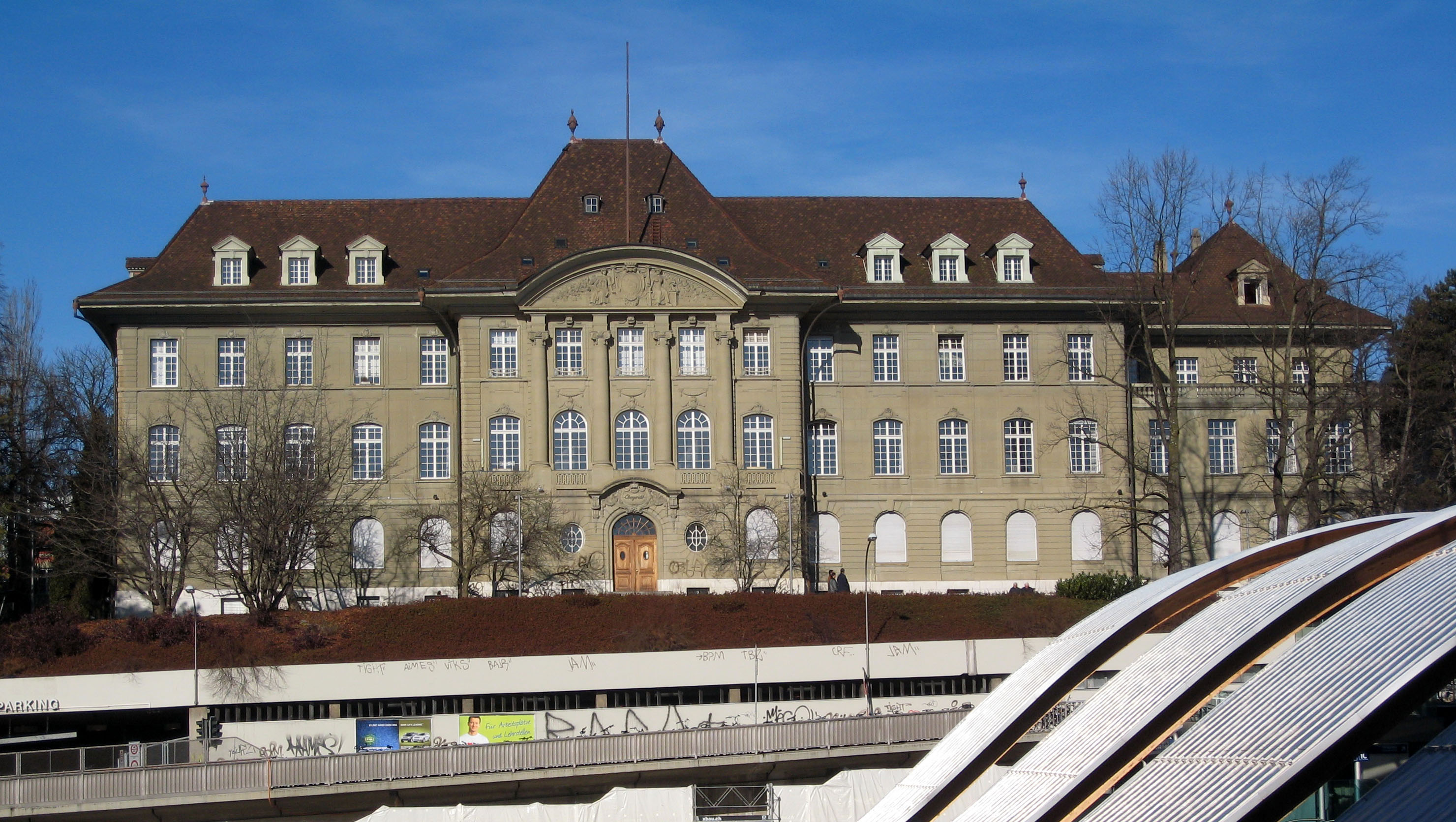 Supreme Court of the Canton of Berne, as seen from the south.